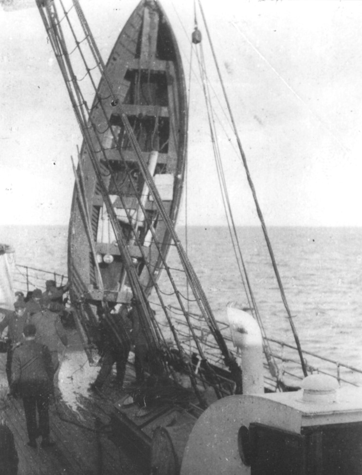 Lifeboat number 12 of Titanic, in morning of the 15 April 1912